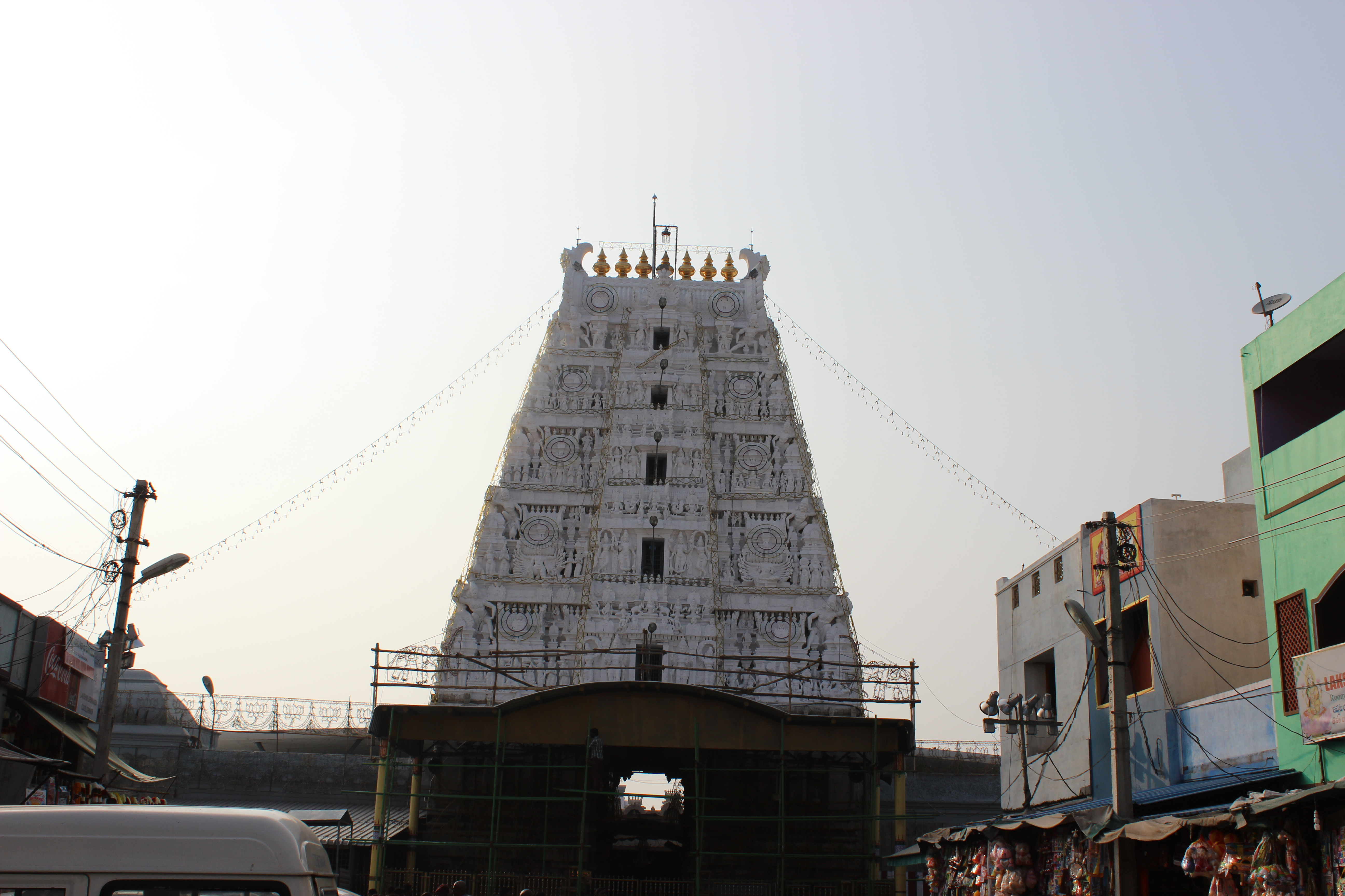 Thiruchanur